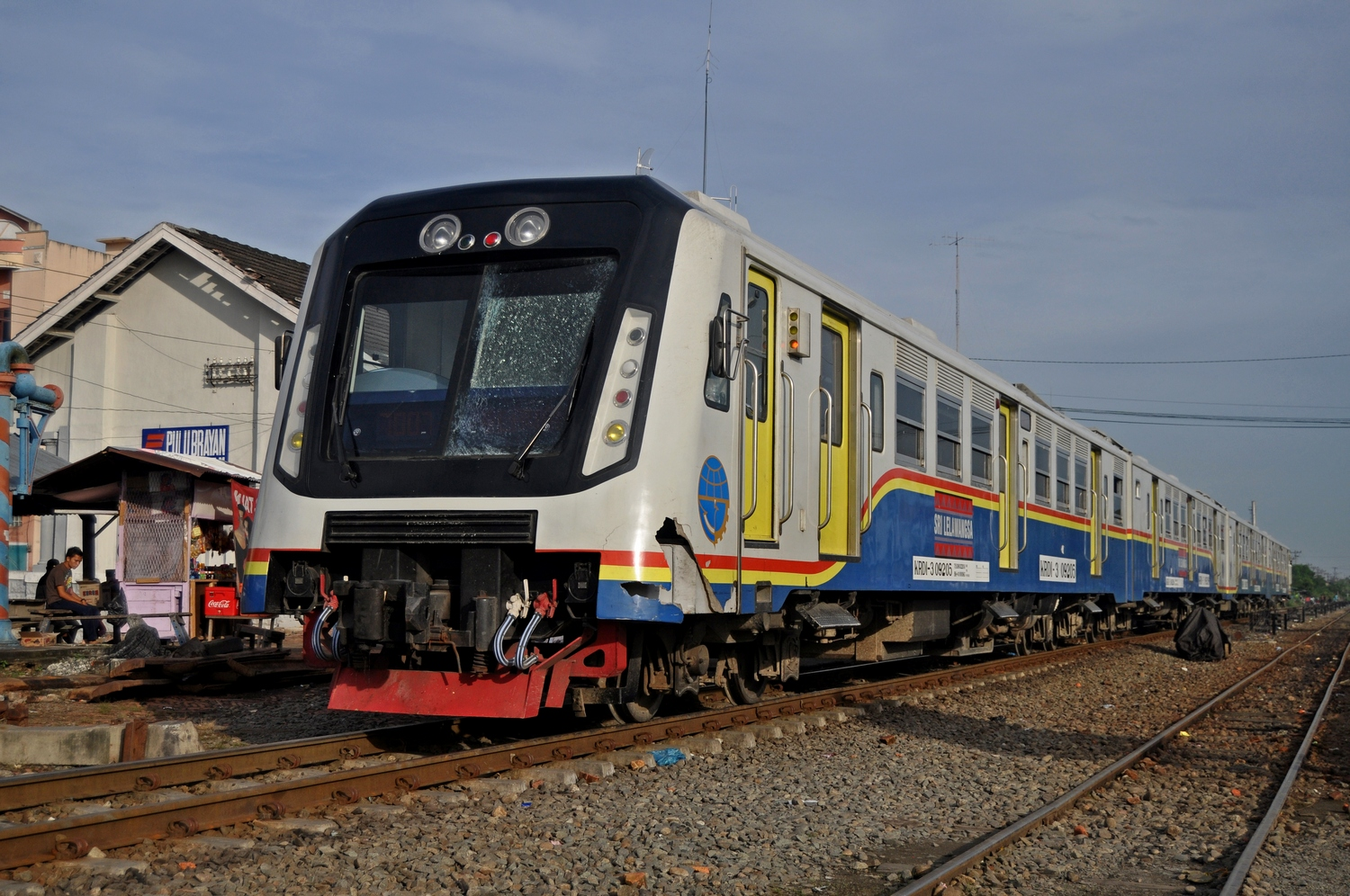 Sri Lelawangsa diesel-multiple-units at Pulu Brayan (PUB) train station in Medan, North Sumatra.